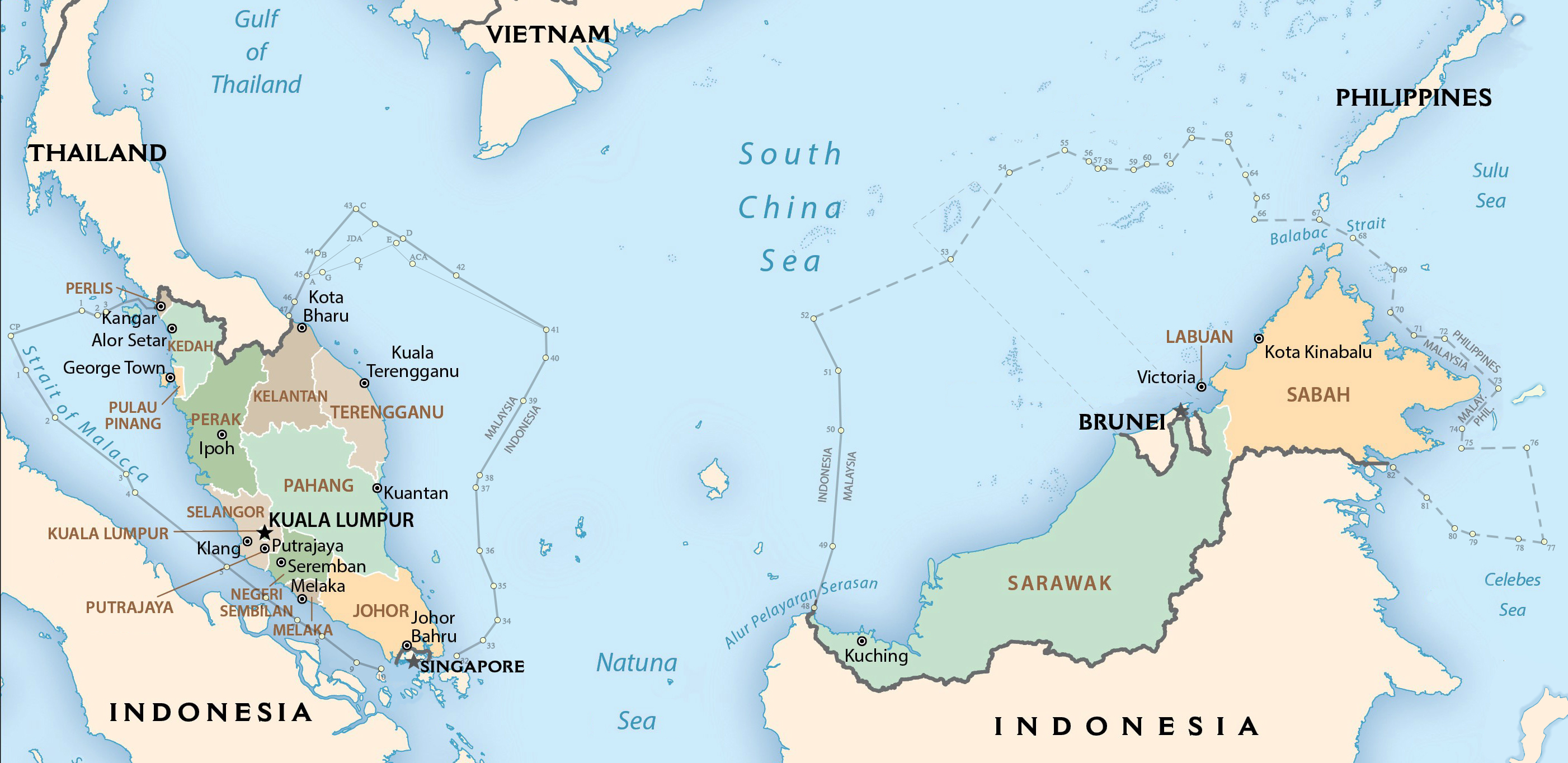 Published in 2008.